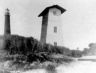 Downloaded from U.S. Coast Guard Historic Light Station Information & Photography - Florida no photo number/caption/date; photographer unknown. Structure was destroyed long before Lighthouse Service was incorporated into the Coast Guard. The Coast Guard inherited the functions, responsibilities, personnel and history of the Lighthouse service and is in effect the modern Lighthouse service.